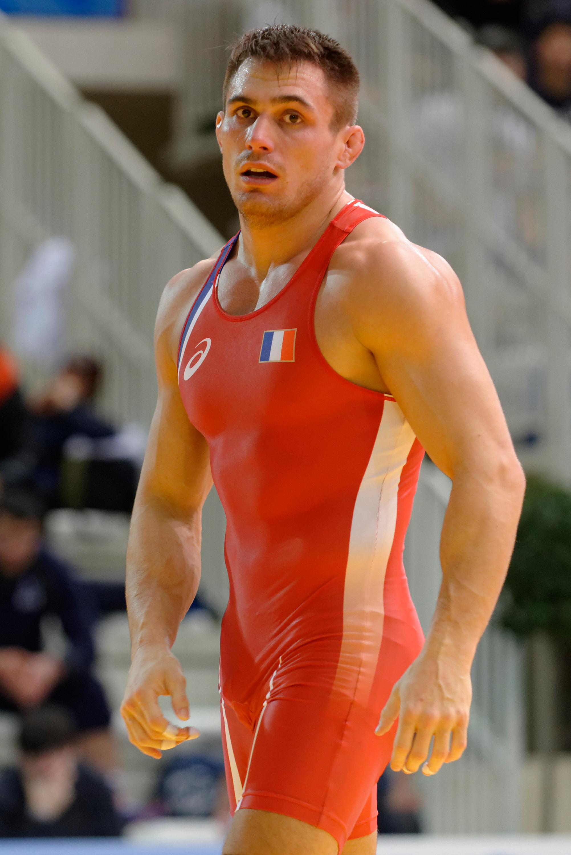 France's Steeve Guénot during his fight against Demeu Zhadrayev of Kazakhstan at the Golden Grand Prix of Paris.